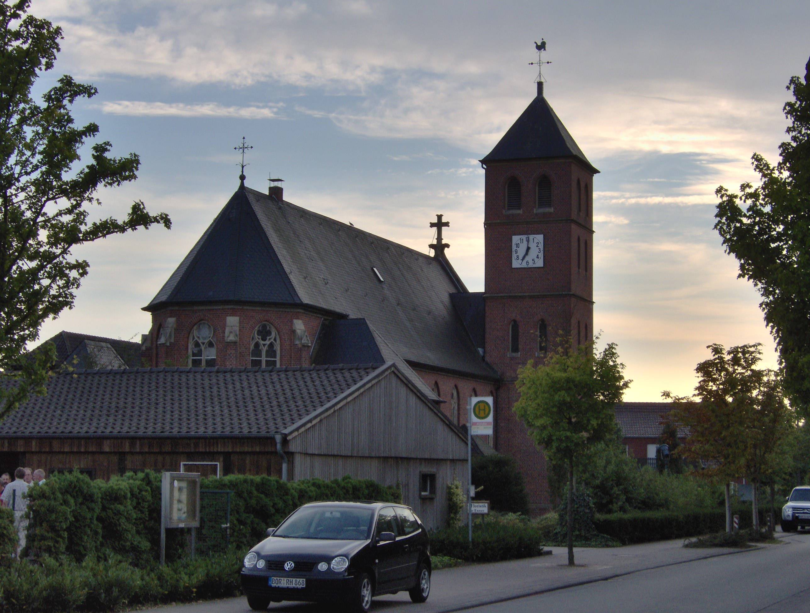 The St. Karl Borromäus Kirche (Saint Charles Borromeo Church) in the hamlet of Büren, municipality of Stadtlohn in North Rhine-Westphalia, Germany. Built in 1914